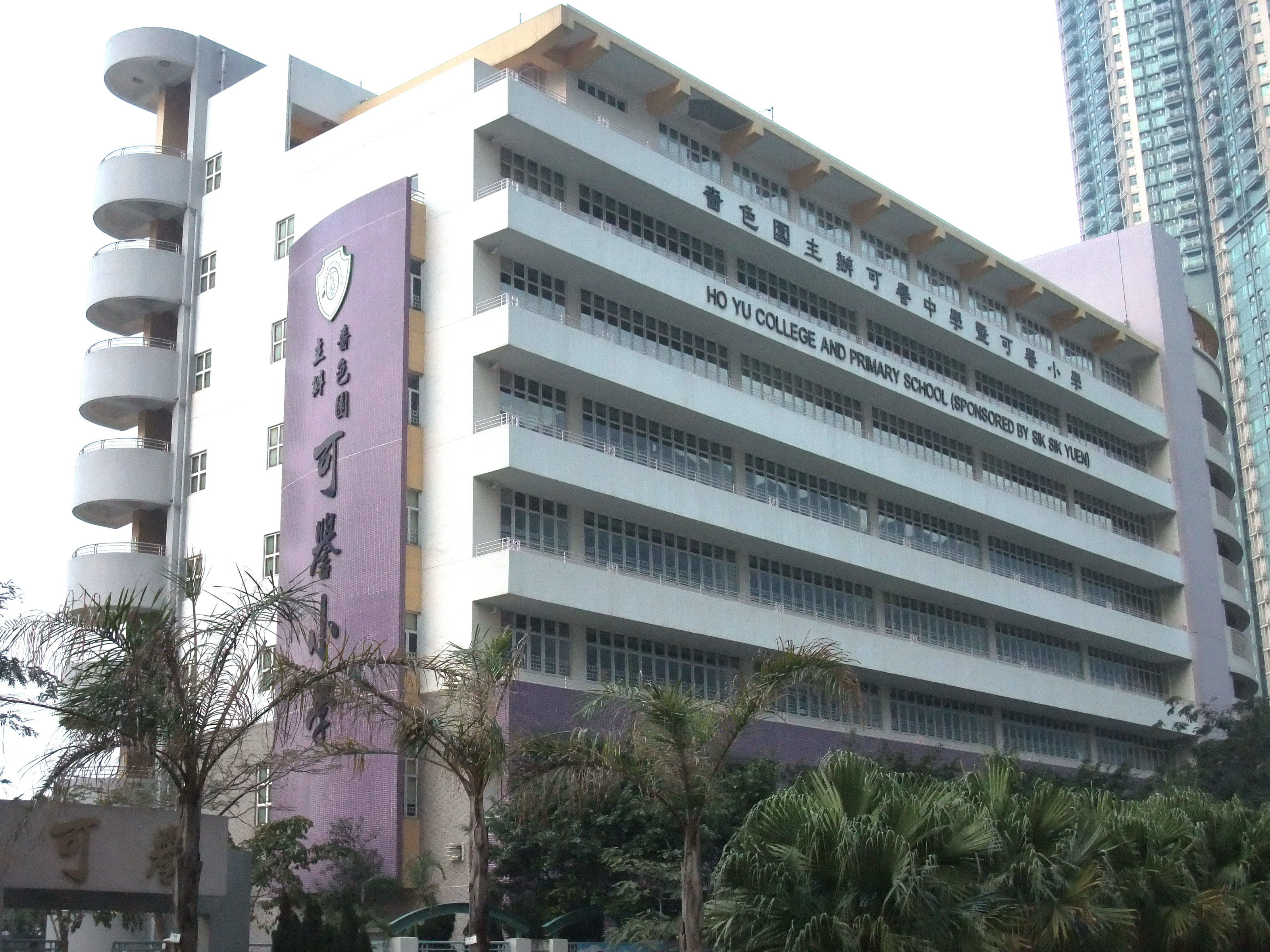 Ho Yu College and Primary School (Sponsored by Sik Sik Yuen) in Tung Chung, Hong Kong.